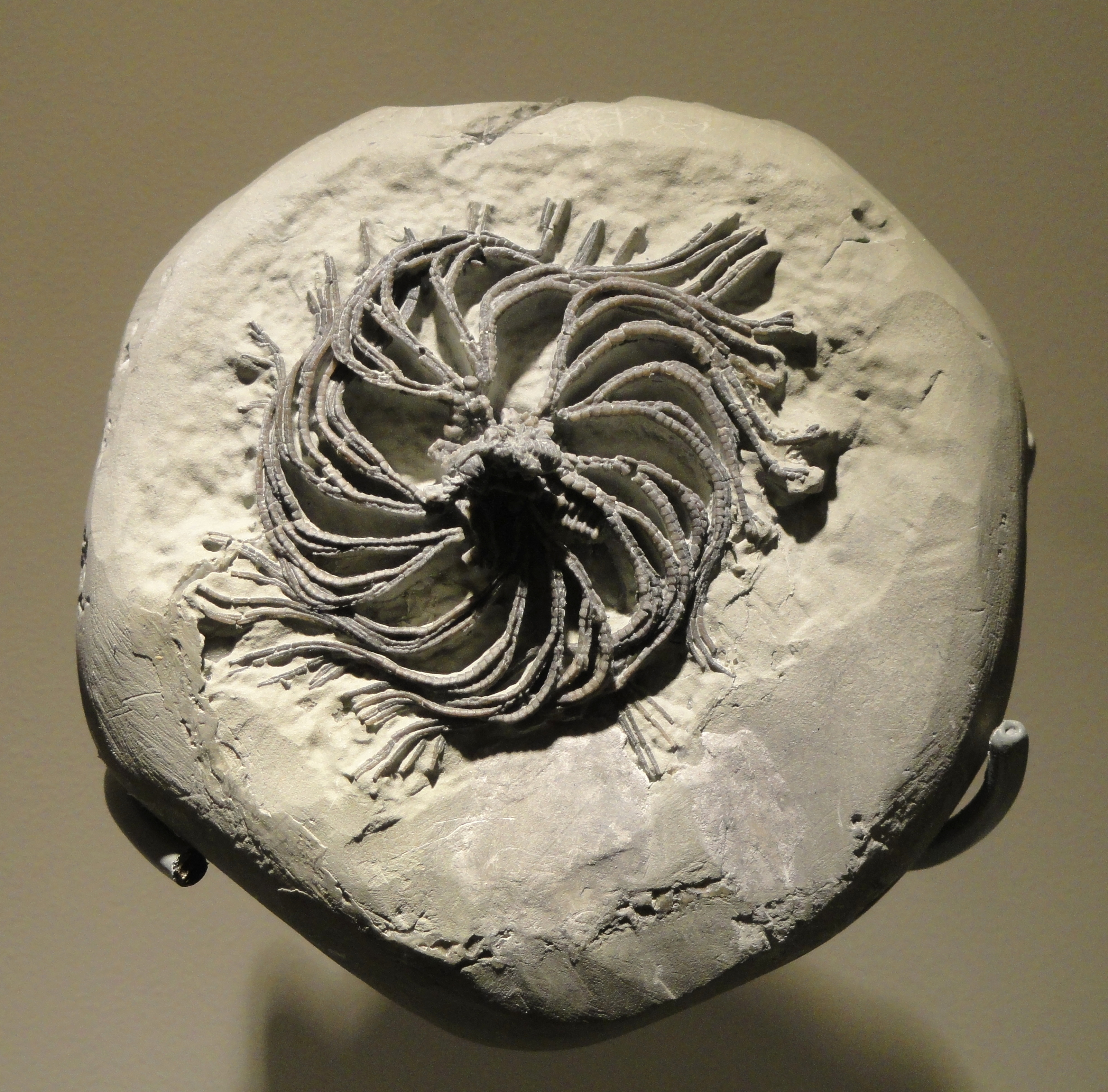 Exhibit in the Houston Museum of Natural Science, Houston, Texas, USA.